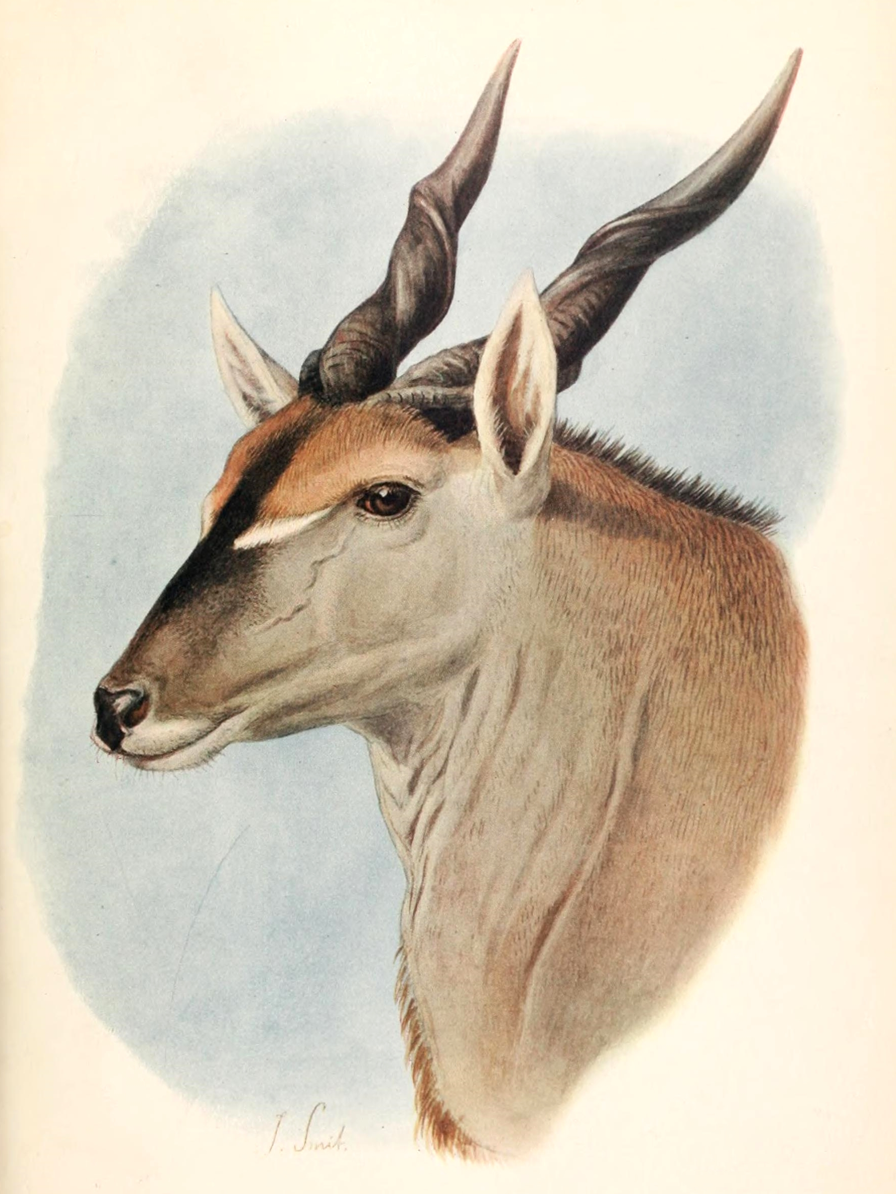 « Taurotragus oryx pattersonianus » = Taurotragus oryx pattersonianus (Subspecies of Common eland) - head